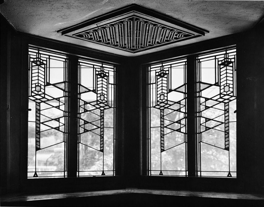 Robie House (designed by Frank Lloyd Wright), Chicago, Illinois